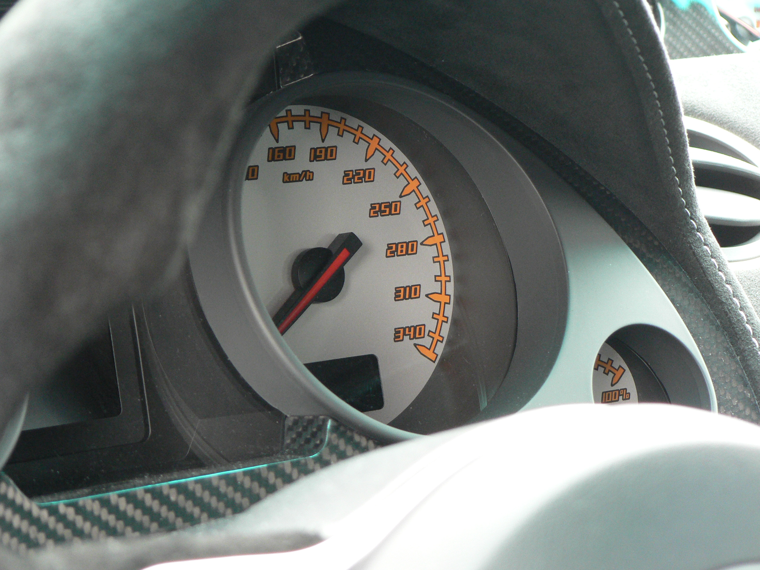 Detail of a Lamborghini Gallardo Superleggera speedometer.